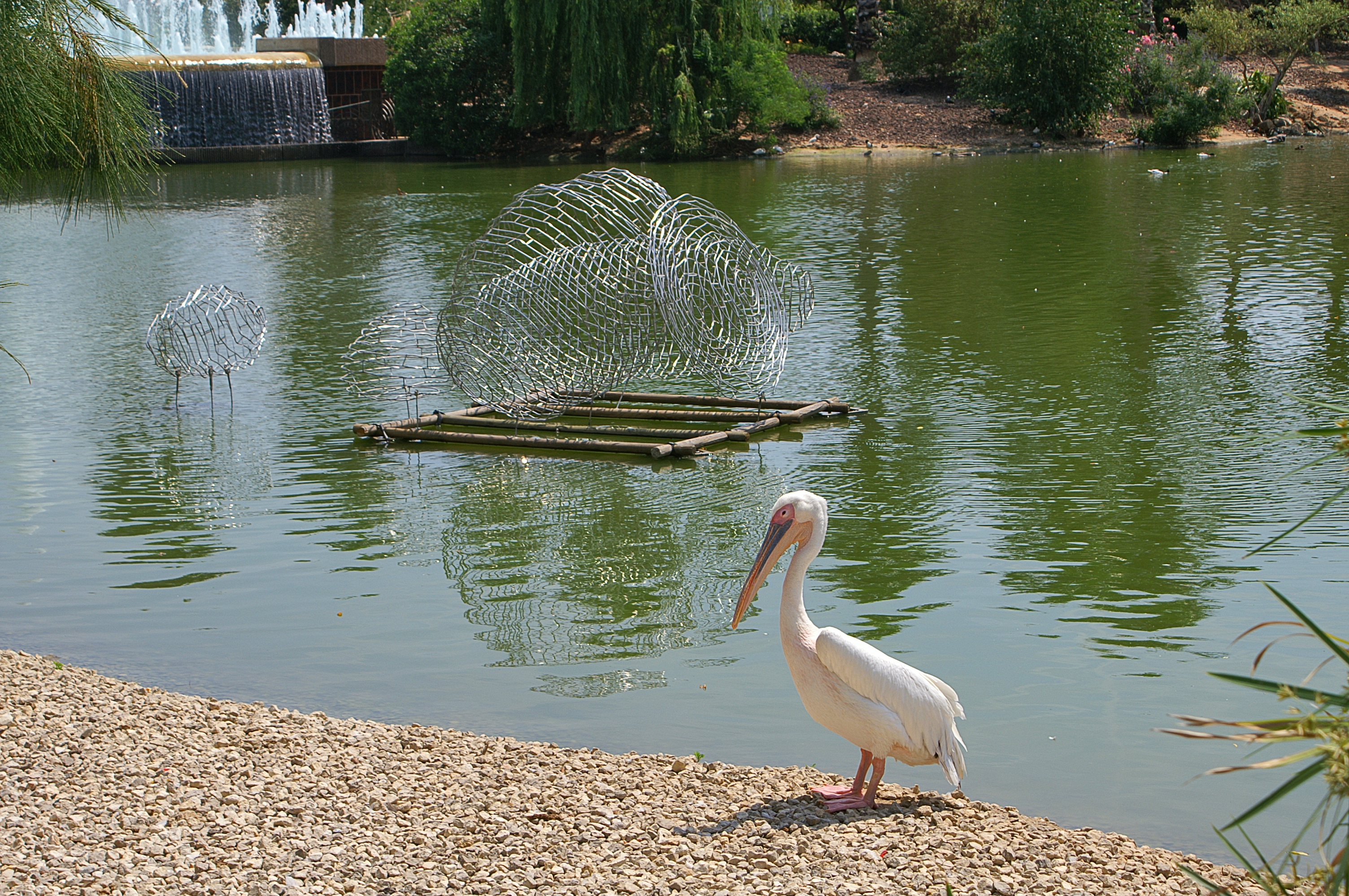 The park has about twenty themed areas including tropical greenhouse, ponds, Mediterranean gardens